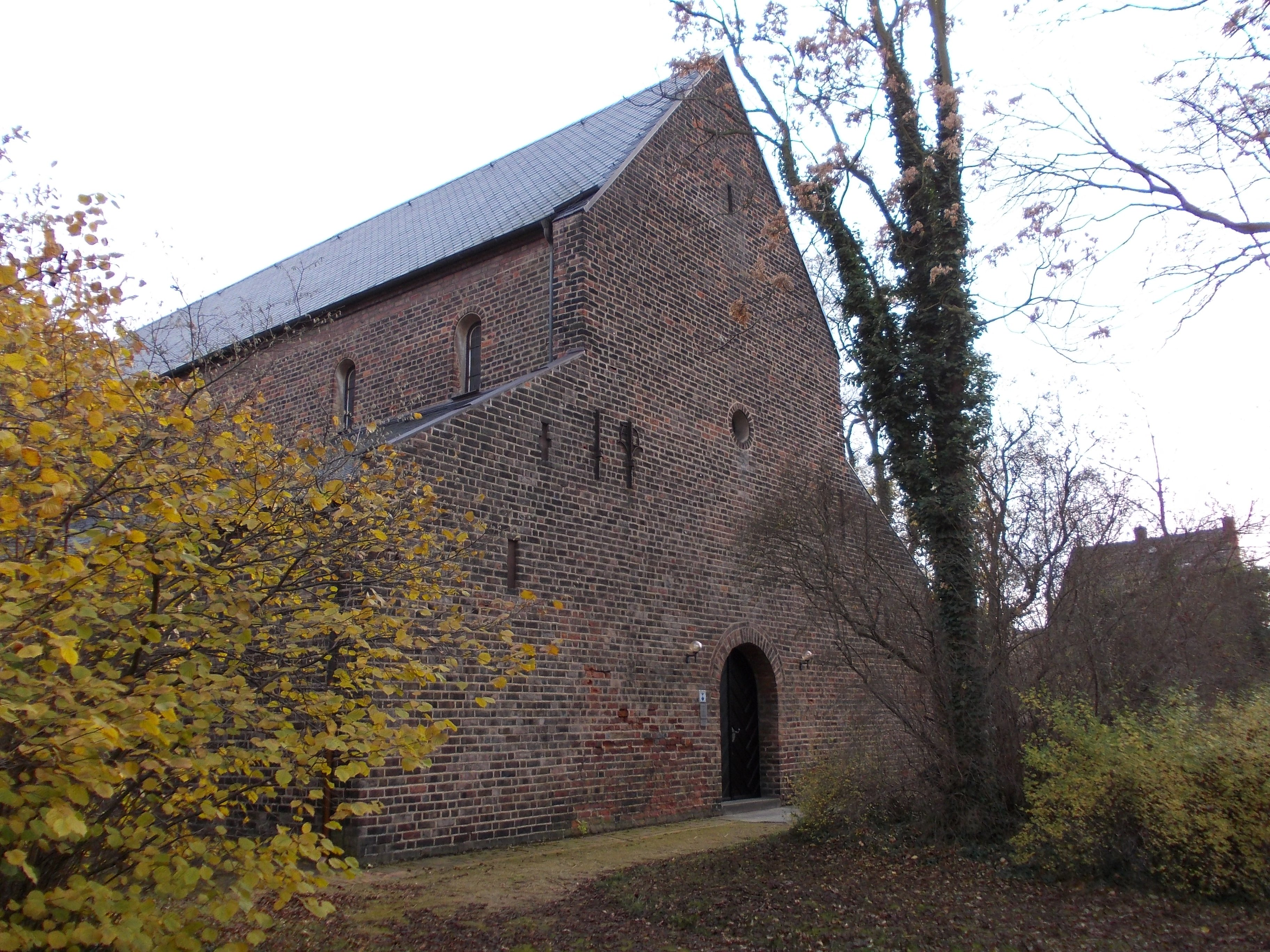 Saint Cunigunde's Church in Borna (Leipzig district, Saxony) from the nord-west